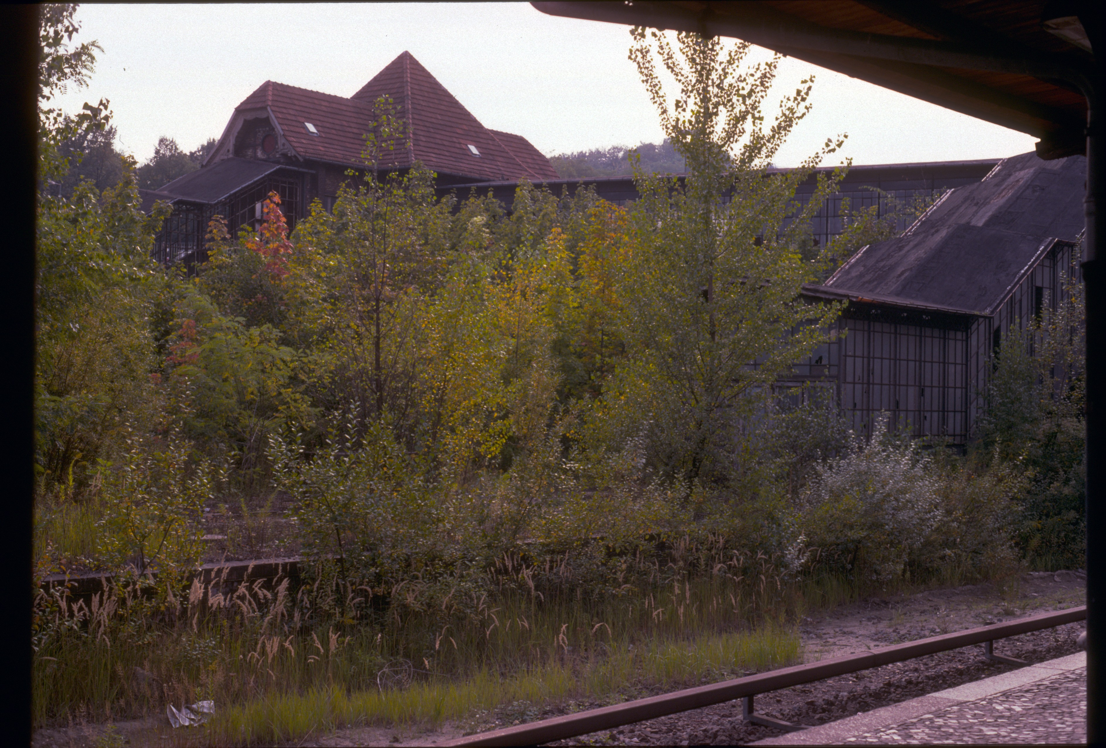 Station Gesundbrunnen in September 1991